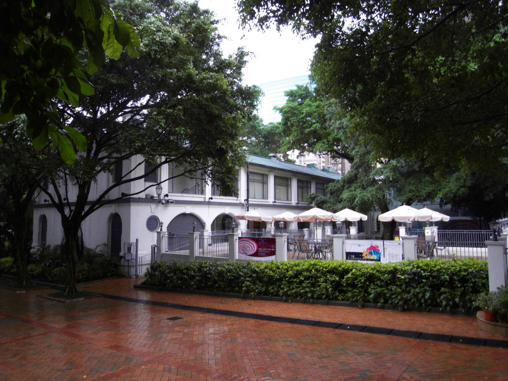 Hong Kong Heritage Discovery Centre, Kowloon Park, Hong Kong, China